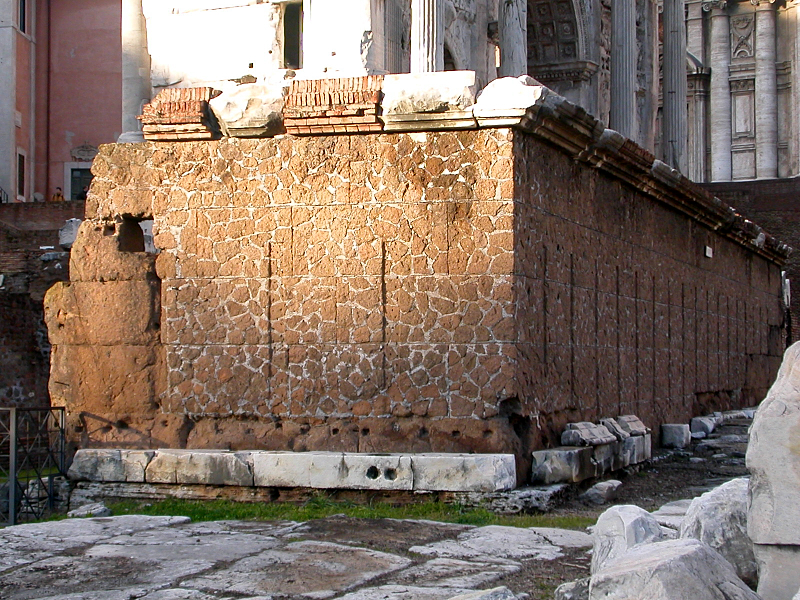 Rostra at Forum Romanum